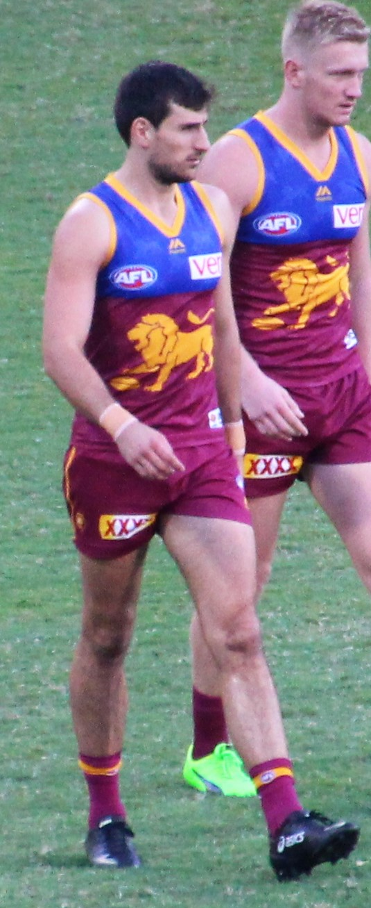 Sam Mayes and Nick Robertson at the Round 6, 2017 game for the Brisbane Lions against Port Adelaide.